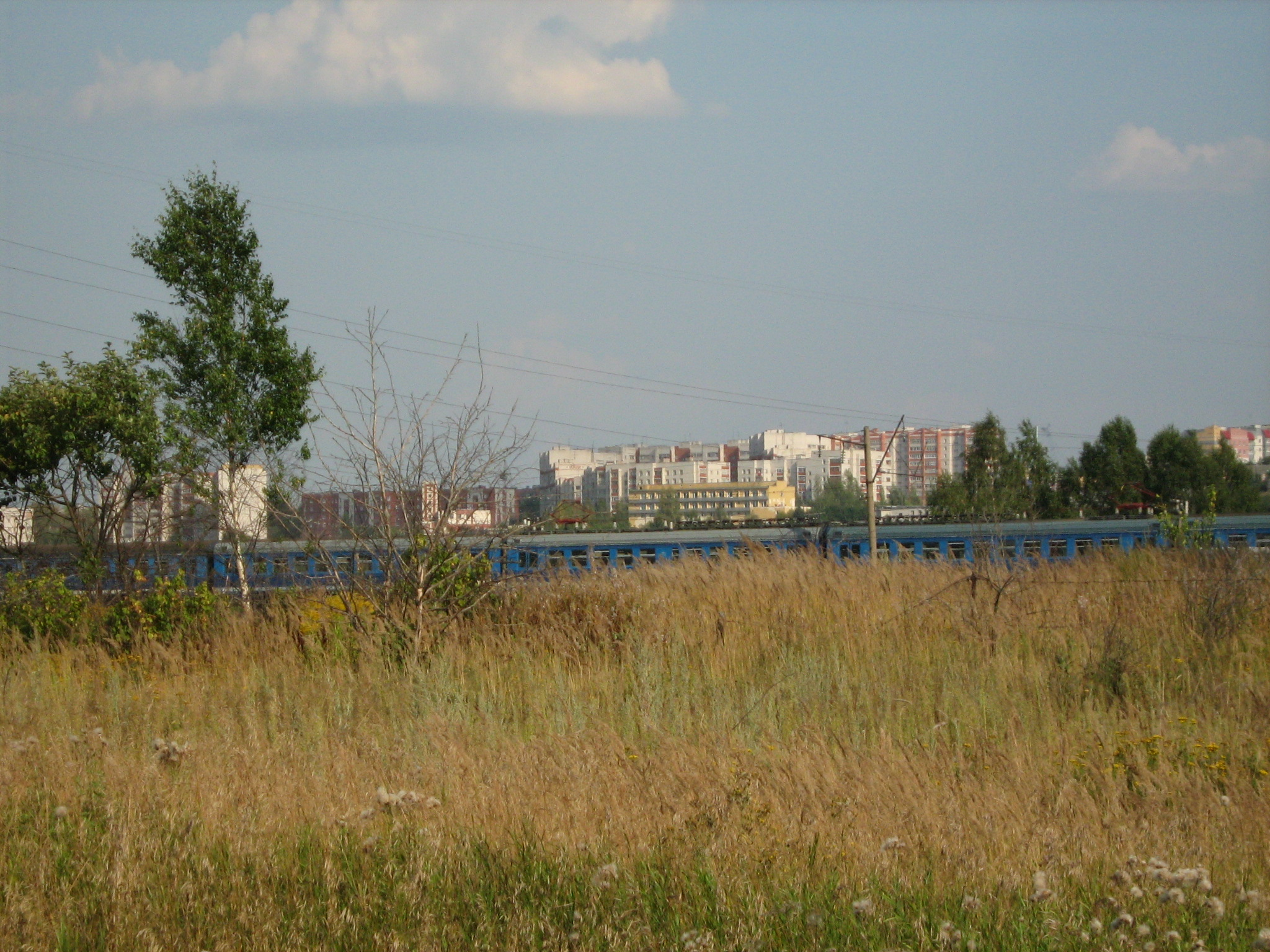 A commuter train is a rare guest in Kstovo (there are 2-3 of them each way every day).